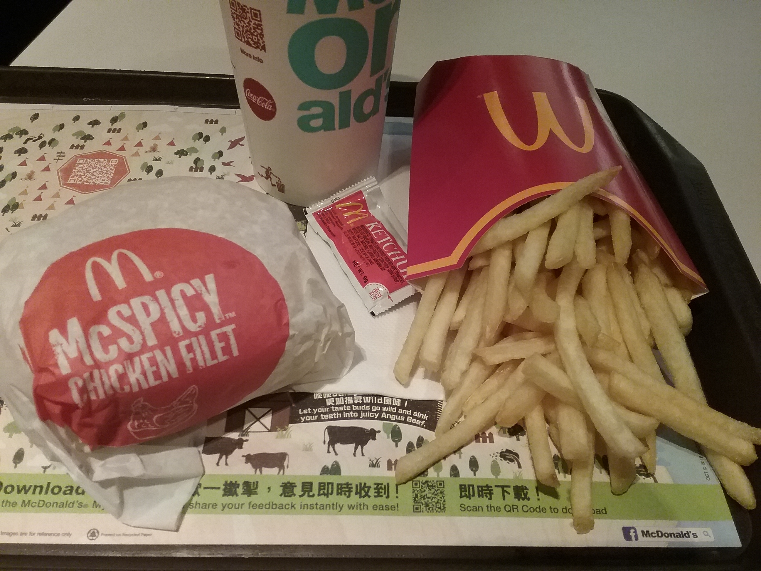 HK 沙田 Shatin 希爾頓中心 Hilton Plaza mall restaurant October 2016 麥當勞炸薯條